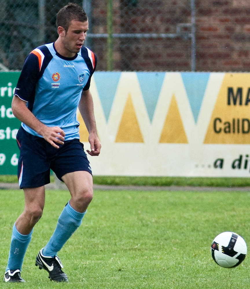 Matthew Jurman playing for Sydney FC Youth against Perth Glory youth.